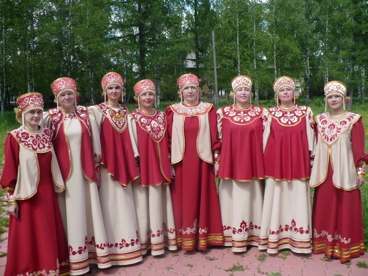 The "Lira"